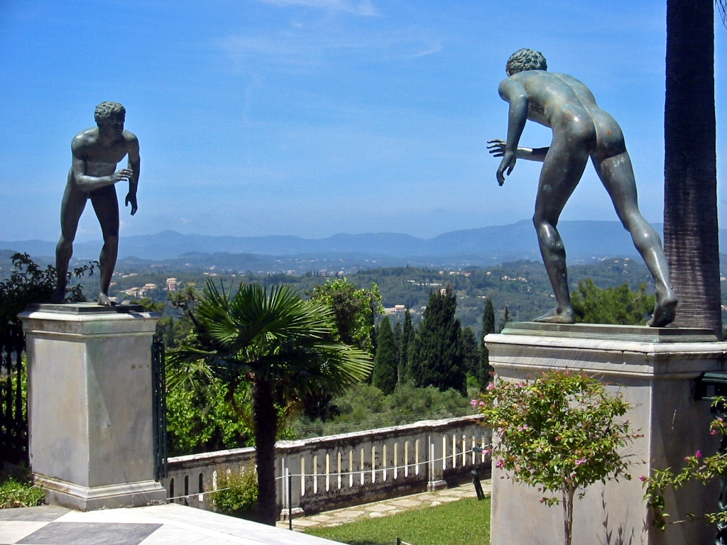 View from the terrace of Achilleion Palace, Corfu, Greece